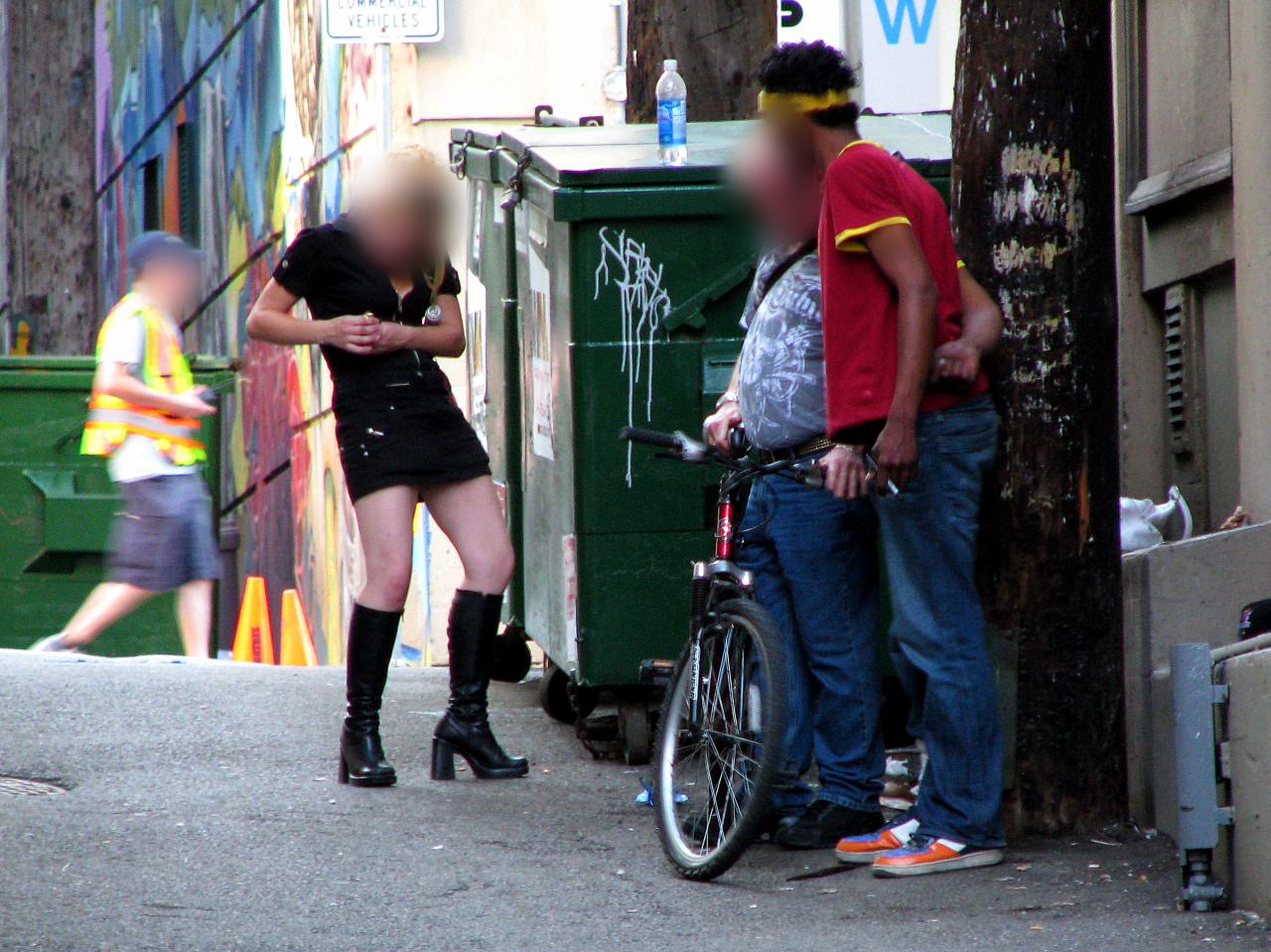 Three people seen using crack cocaine, in a downtown eastside alley, in Vancouver BC Canada.